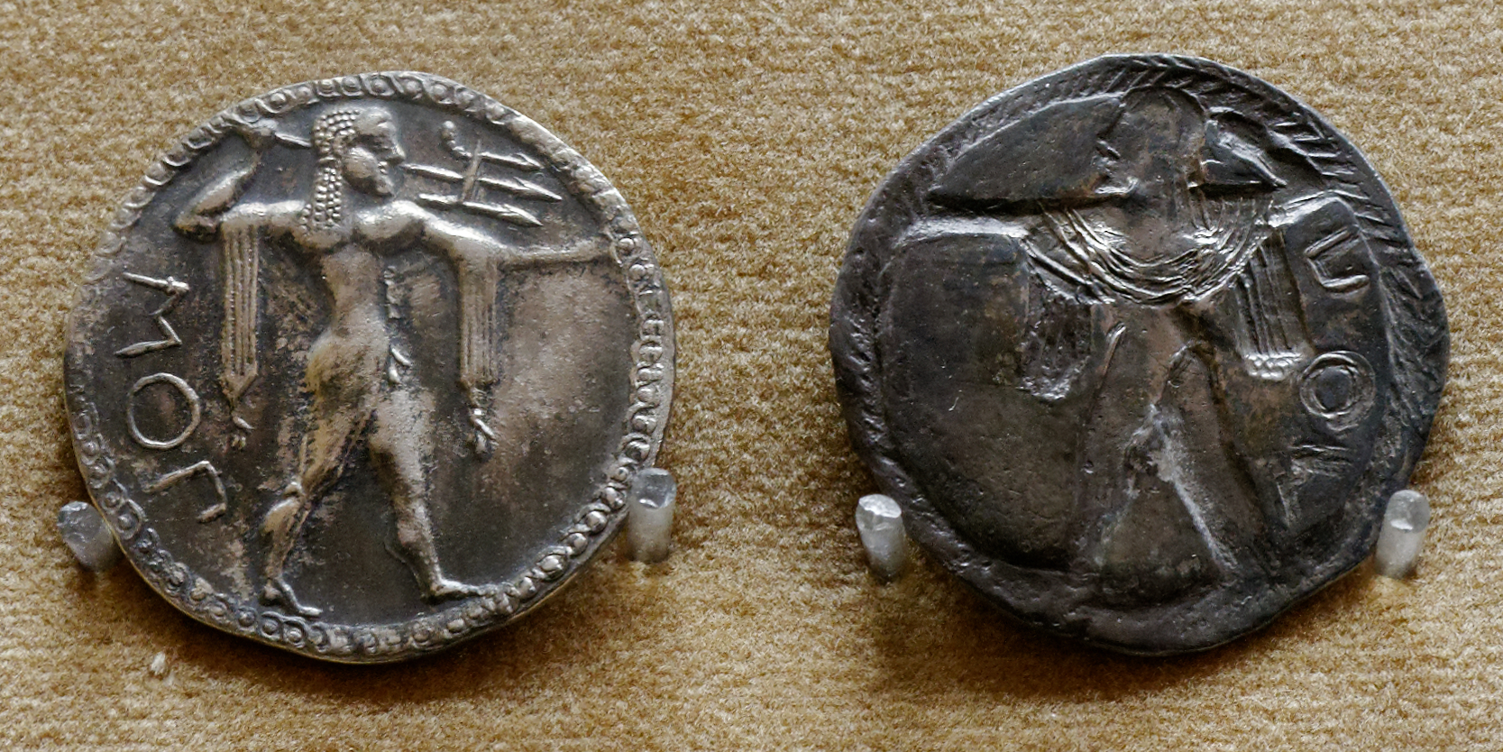 Silver stater from Poseidonia: obverse, Poseidon advancing right, wearing chlamys, striking with trident, left arm extended, ΠΟΣ (POS) (retrograde script); incuse reverse.